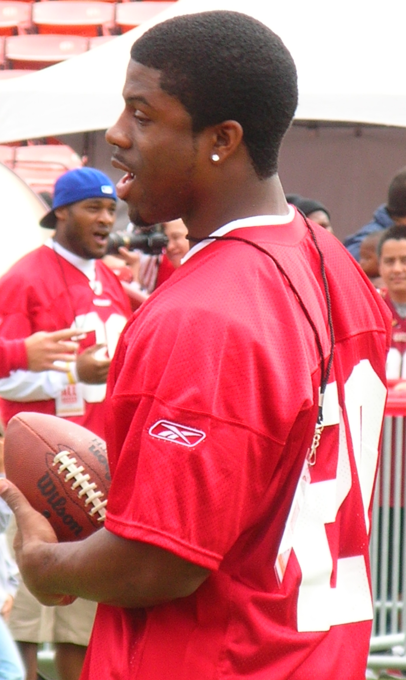 San Francisco 49ers running back Glen Coffee at the San Francisco 49ers Family Day 2009 at Candlestick Park.